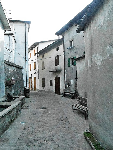 little street